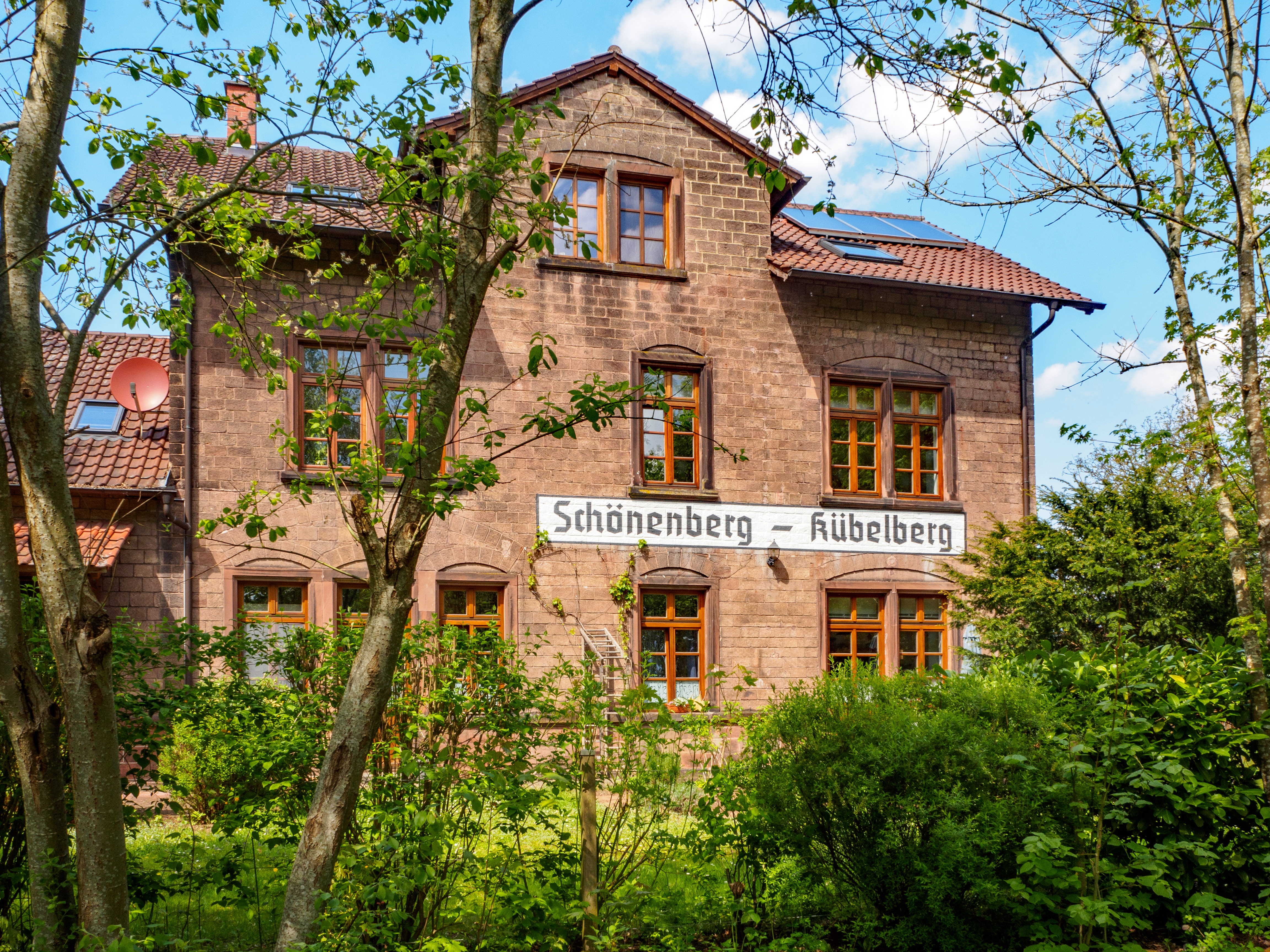 Railway station Schönenberg-Kübelberg, south side seen from the platform